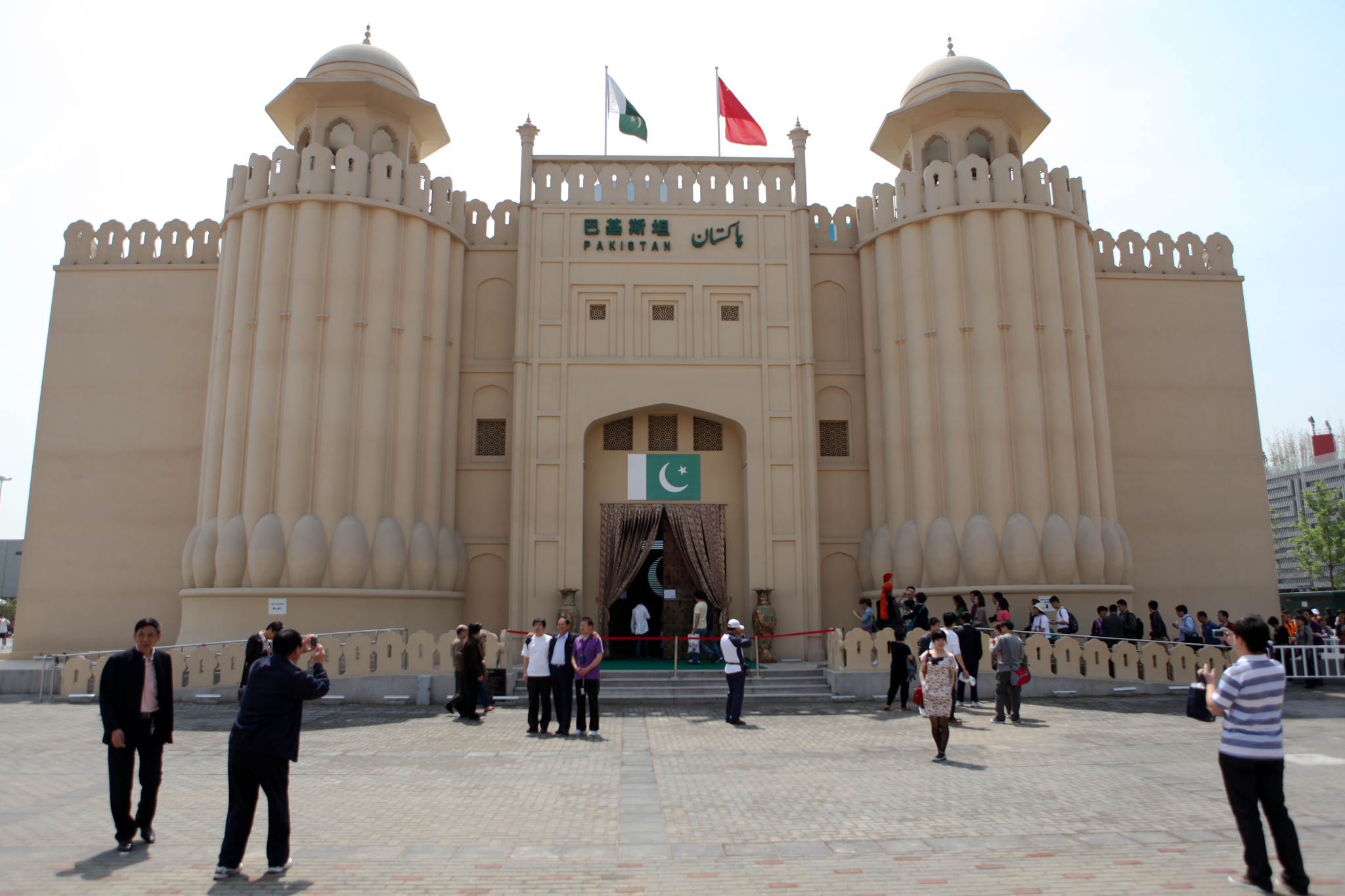 Pakistan's Pavillion at the 2010 World Expo in Shanghai